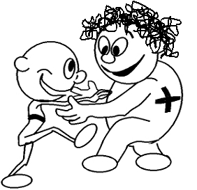 elements with diferrent charge gravitate